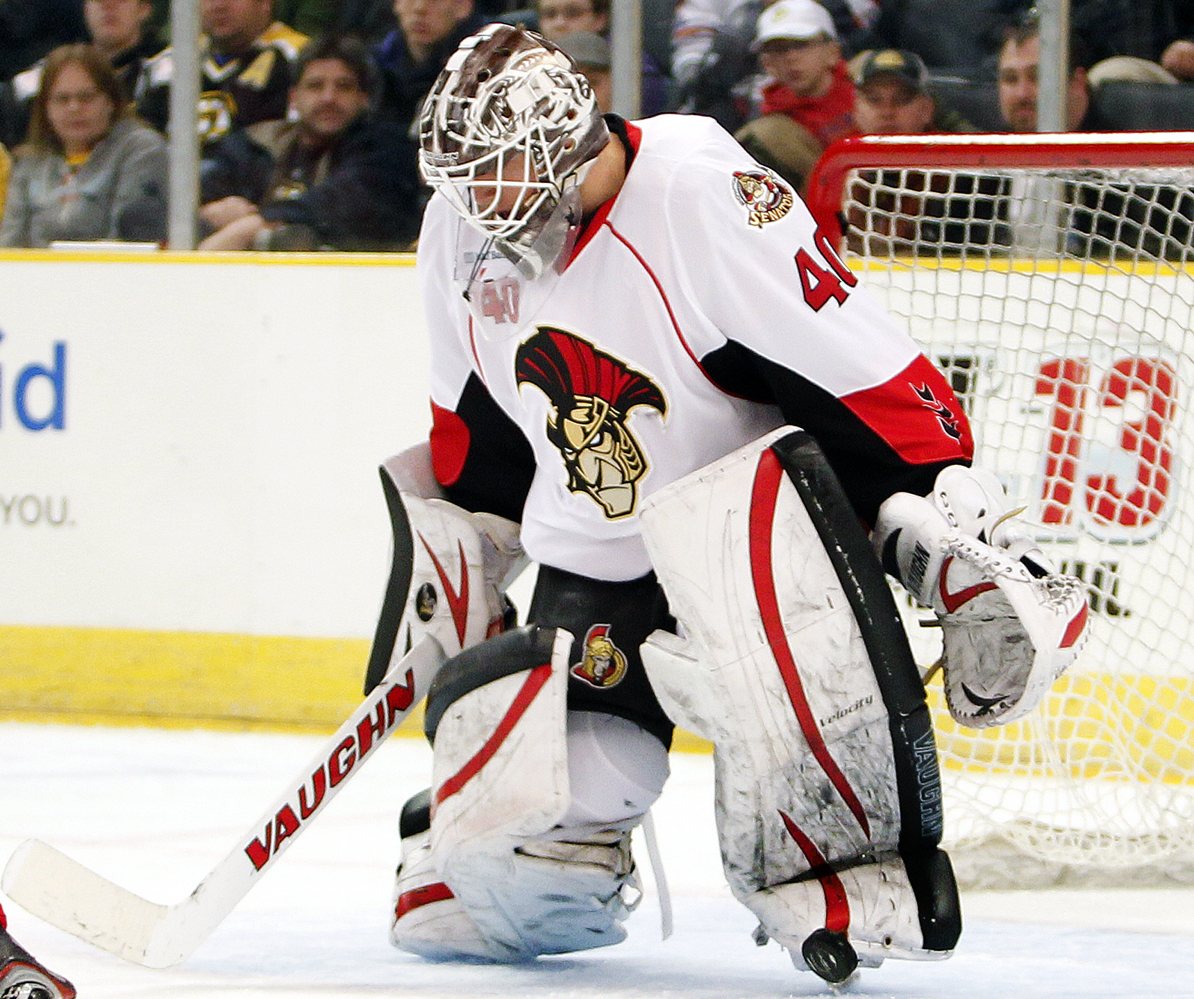 Breakaway6 American Hockey League (AHL). 2013 All-Star Skills Competition. Taken on January 27, 2013.